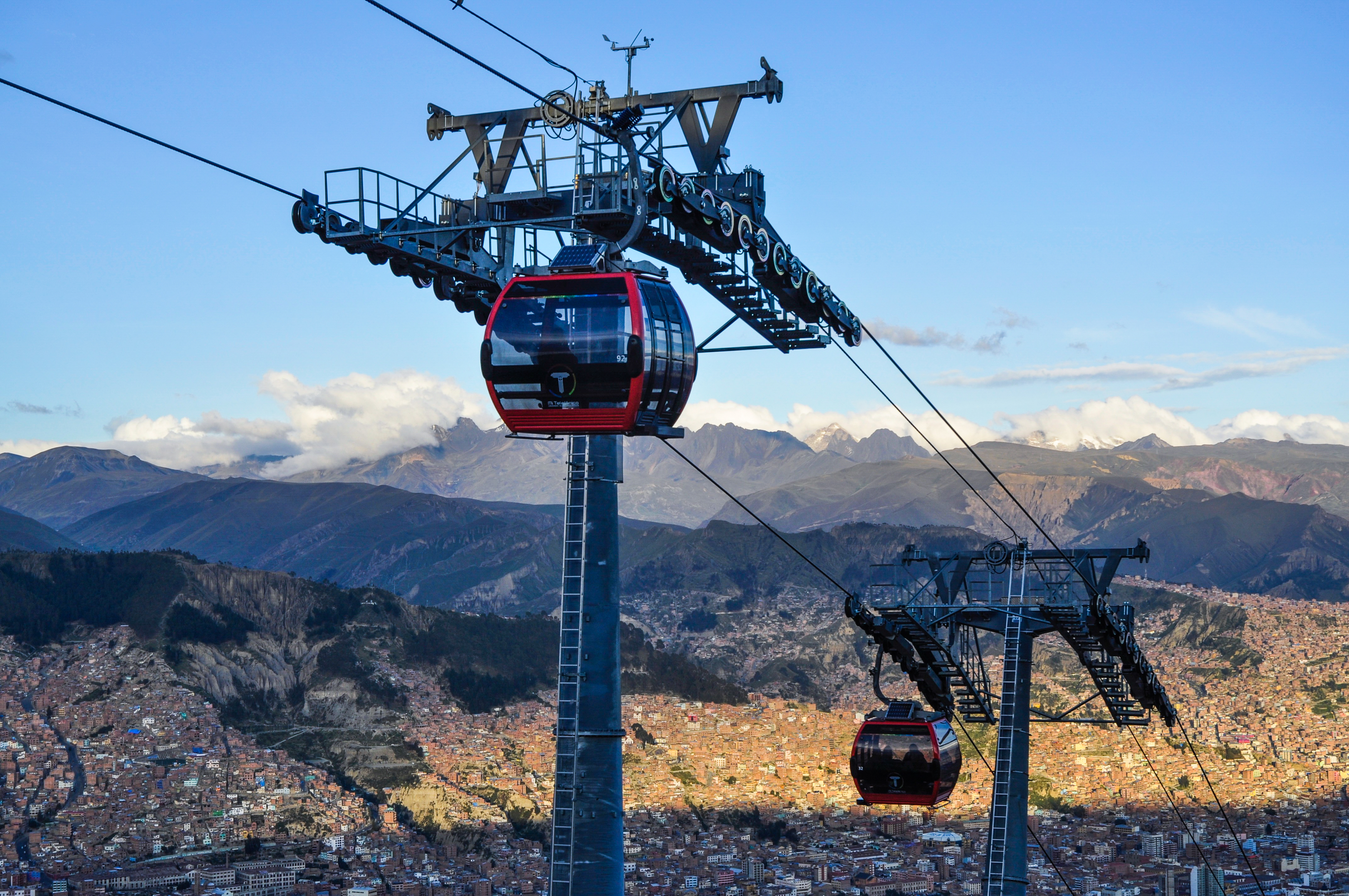 Red Line of the aerial cable car urban transit system of La Paz, Bolivia.